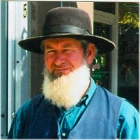 Amish man